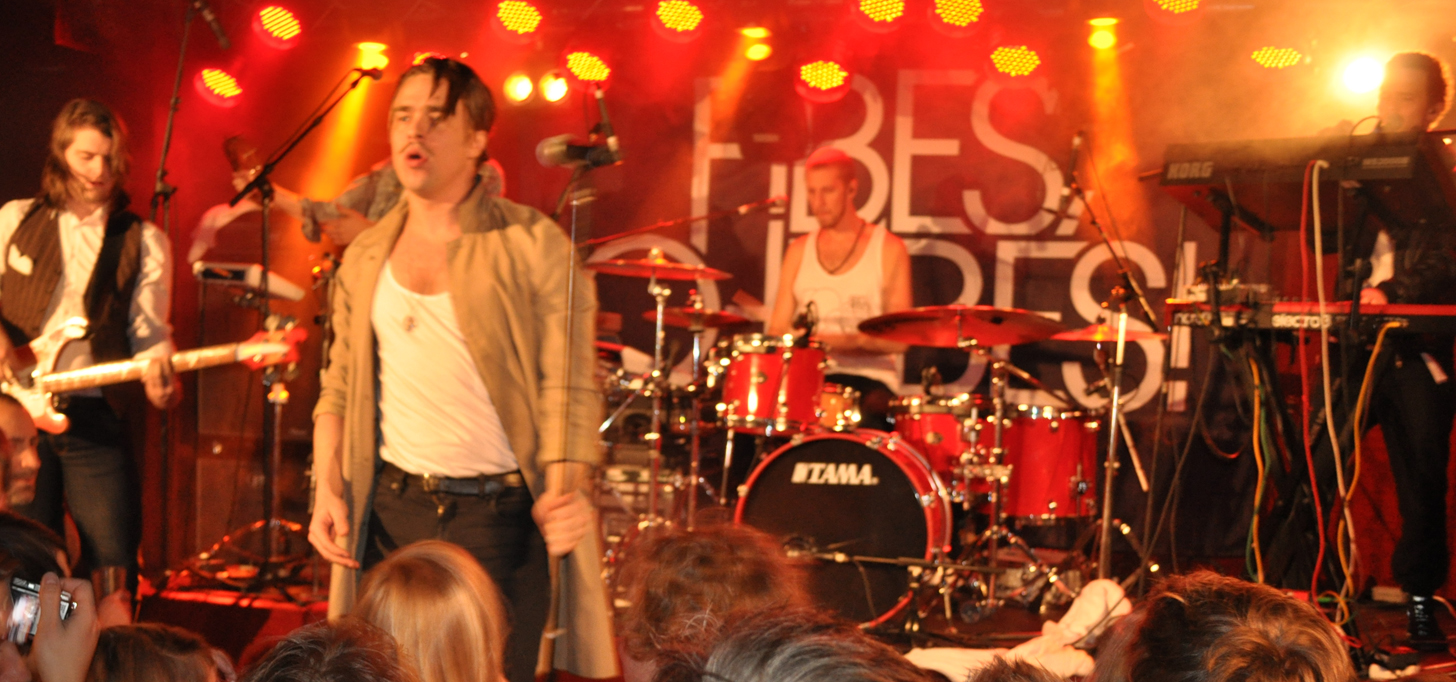 Fibes! Oh Fibes! in "Bygget", Åre - January 2010